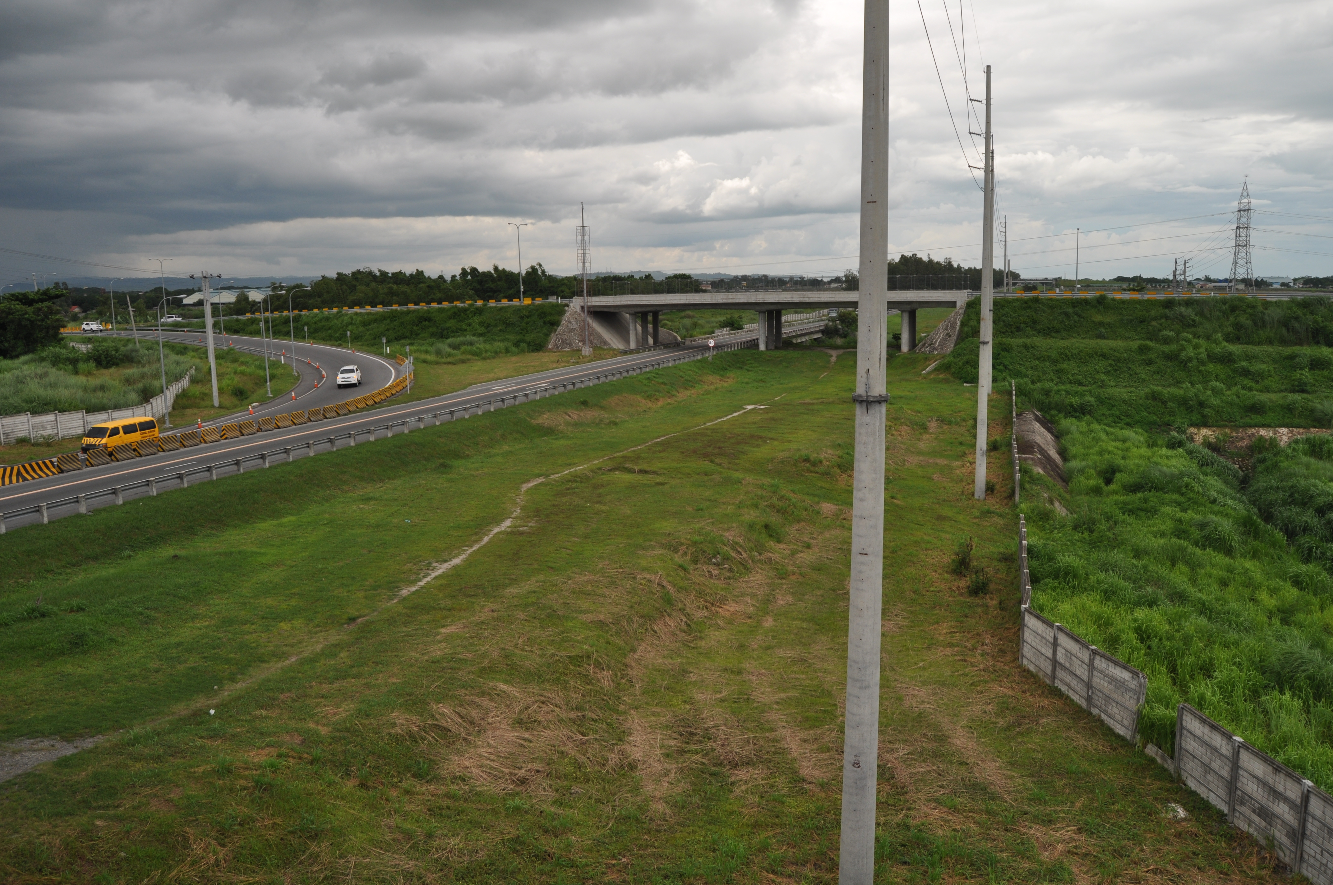 North Luzon and Subic expressways